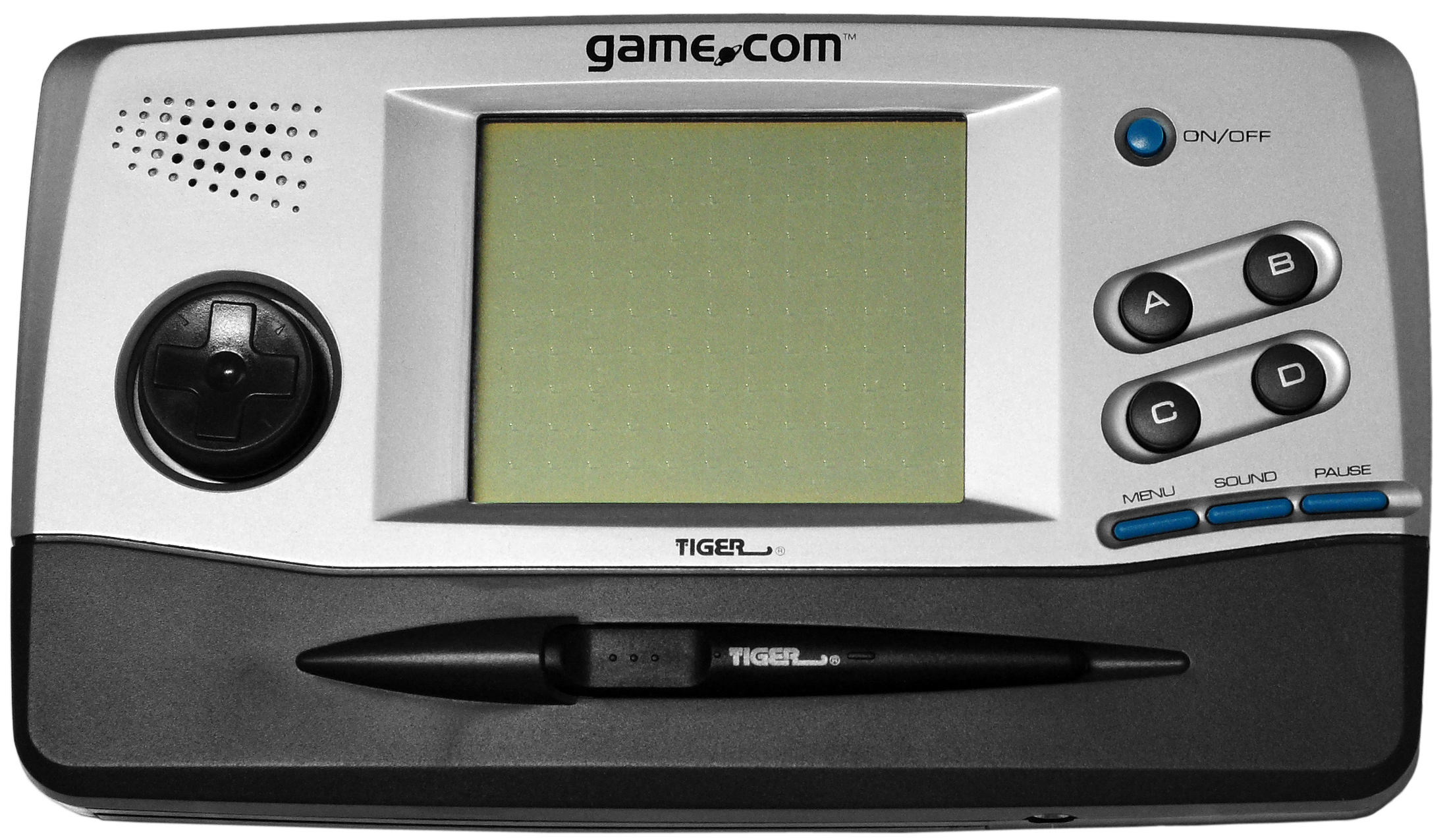 A Tiger handheld game system.